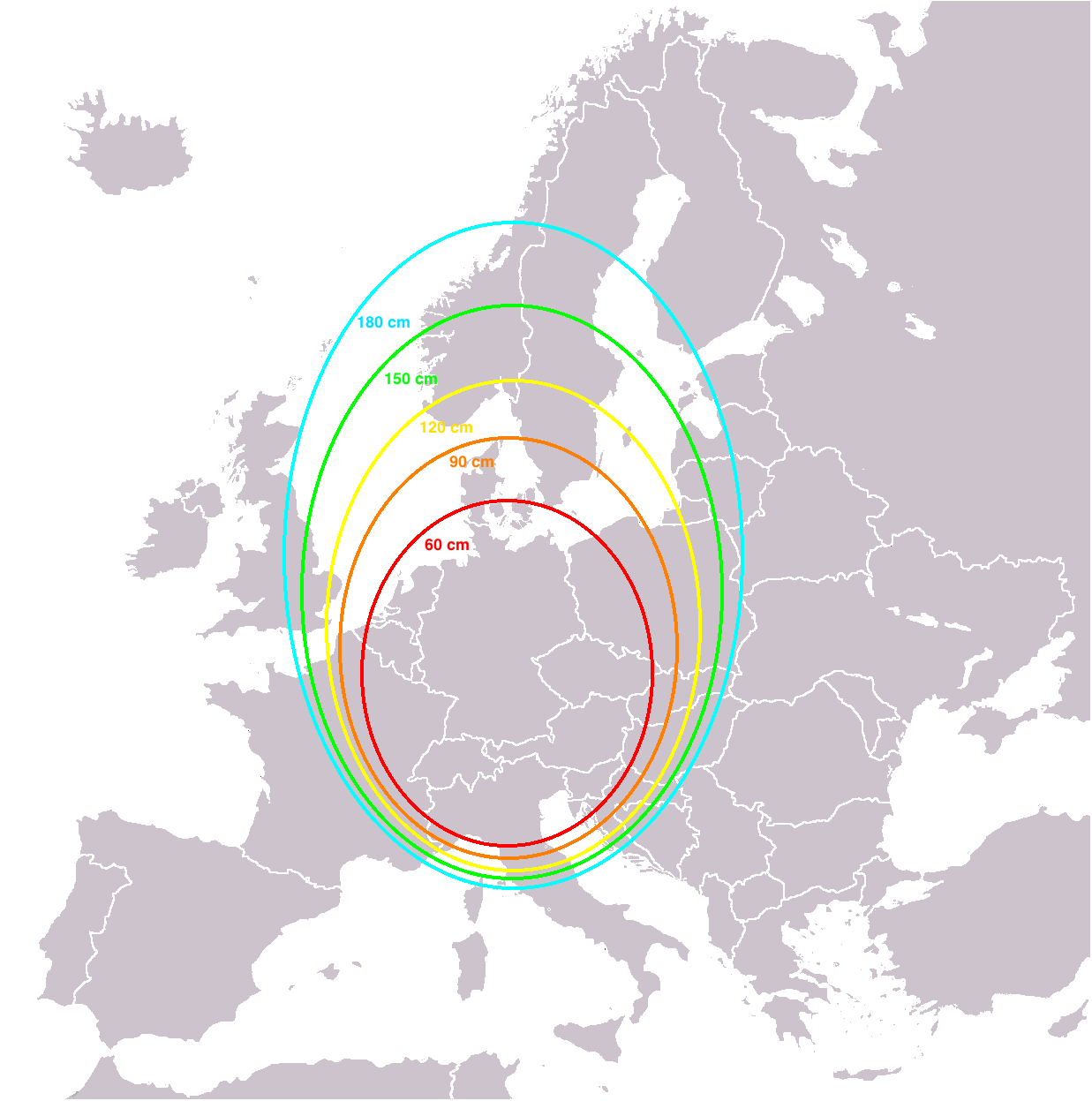 A theoretical elliptical footprint of a Satellite targeted at Germany, Austria and Switzerland. At each ellipse is indicated the necessary antenna diameter for receiving in cm.